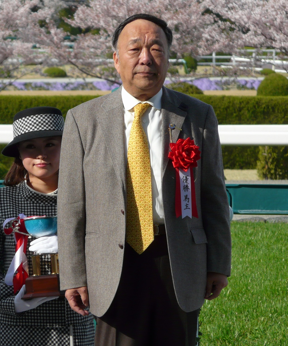 Koichi-Hori2010